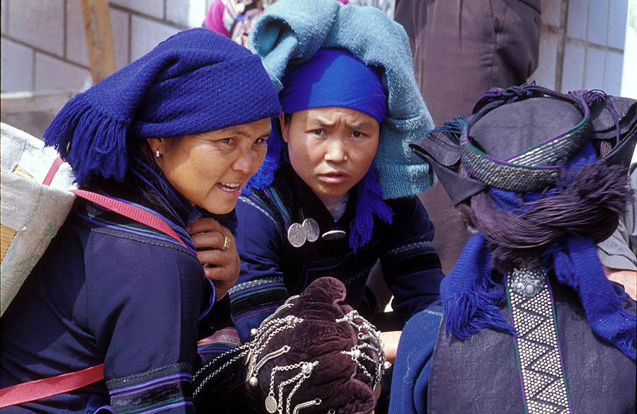 Typical daily attire of ethnic Hani (哈尼) in China. Near Yuanyang, Yunnan Province, China (note the incorrect file name identifies such as Yi).